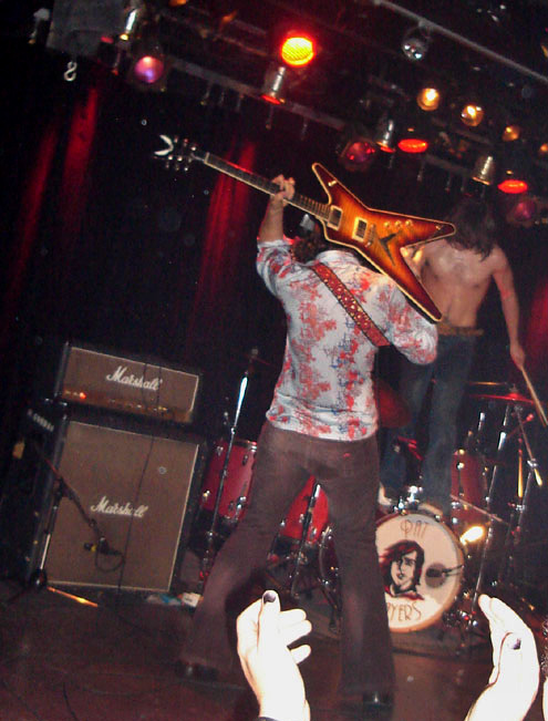 Adrian Popovich from Tricky Woo playing live at Café Campus, Montreal, Quebec, Canada, 8 October 2005.